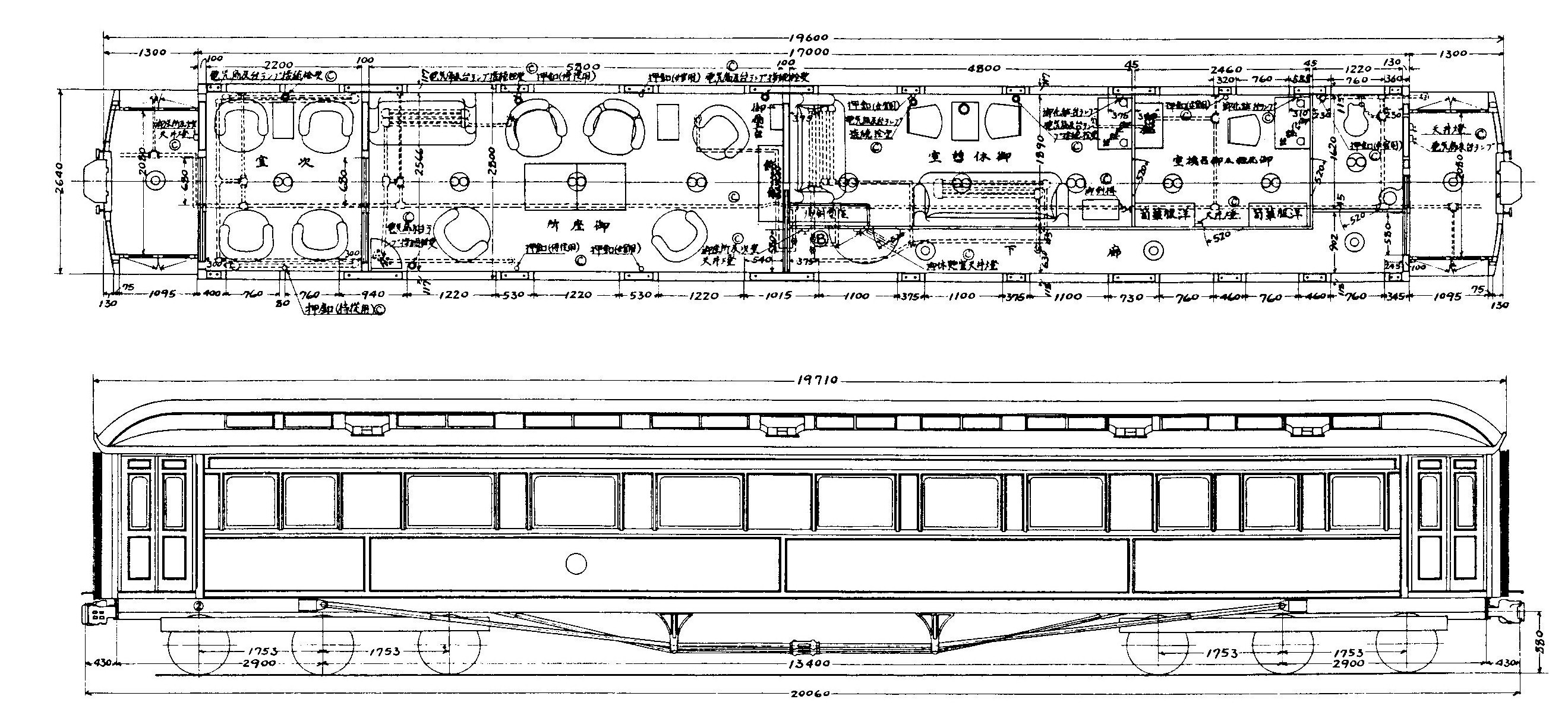 Type drawing of JGR's Imperial Car (Goryosha) No.12